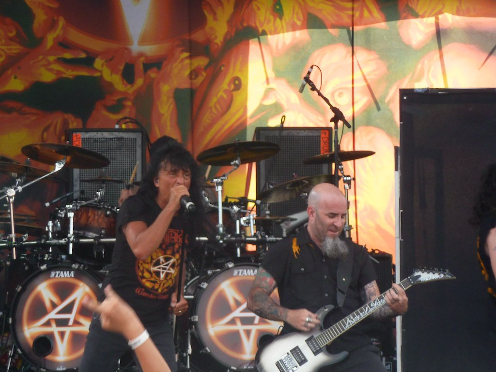 Joey Belladonna and Scott Ian tearing it up at Mayhem Fest 2012